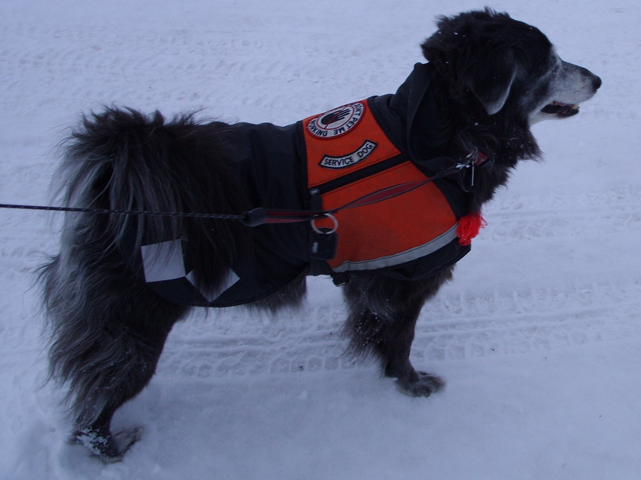 A service dog, working in snow in Finland. She wears a colorful vest and an insulating underjacket with reflective markers, useful in winter when it's dark up to 22 hours a day.